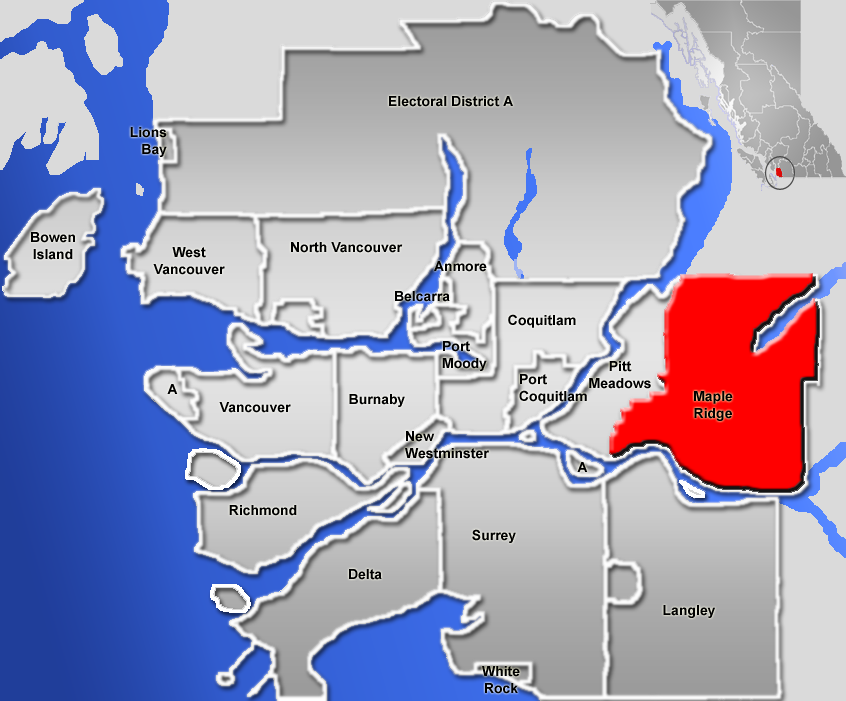 Location of Maple Ridge, Greater Vancouver District, BC